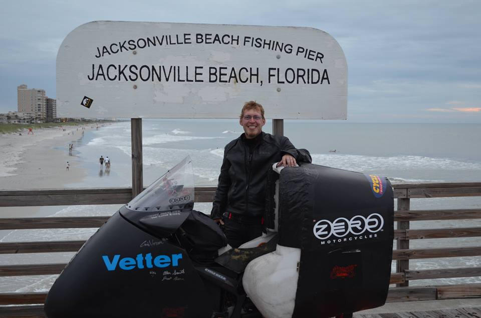 Terry Hershner on Jacksonville Beach Pier, moments after completing the first ever cross country run by electric motorcycle.